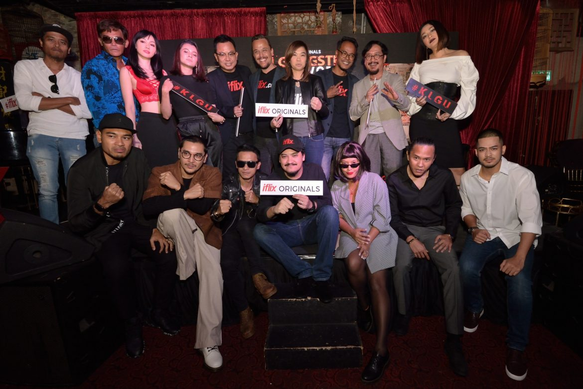 KLGU cast with iflix CEO during launch